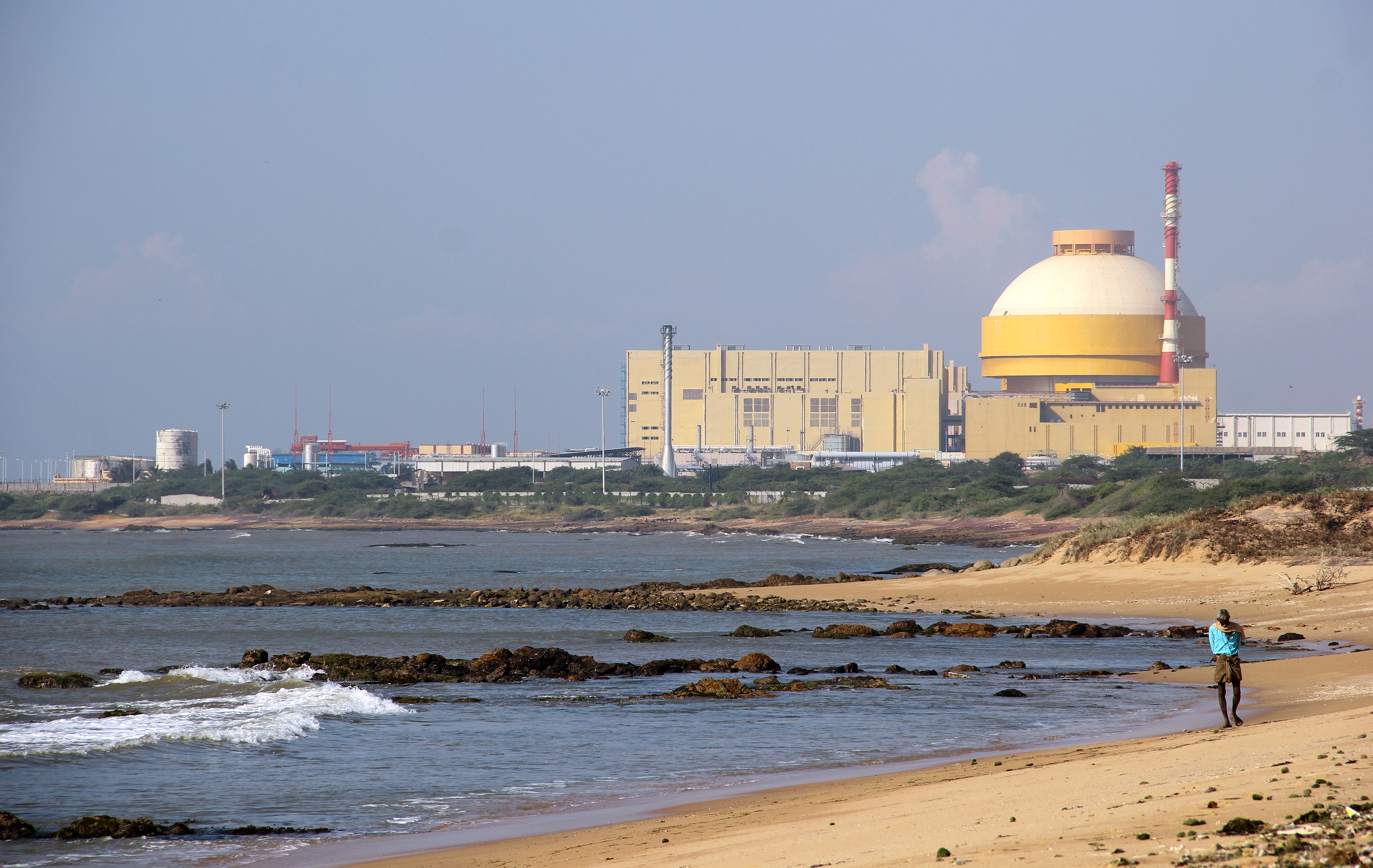 The first reactor reached criticality in July, 2013. KKNPP Officials have confirmed that 370 MWe of electricity was generated by the plant in late November 2013 after being synchronized with the grid.